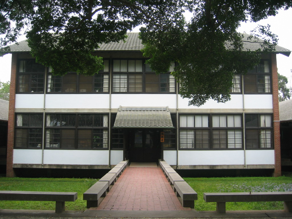 東海大學教務處 2006年4月2日，mingwangx攝於台中。 Academic Affairs Office in Tunghai University. Taken by mingwangx on April 2nd, 2006.